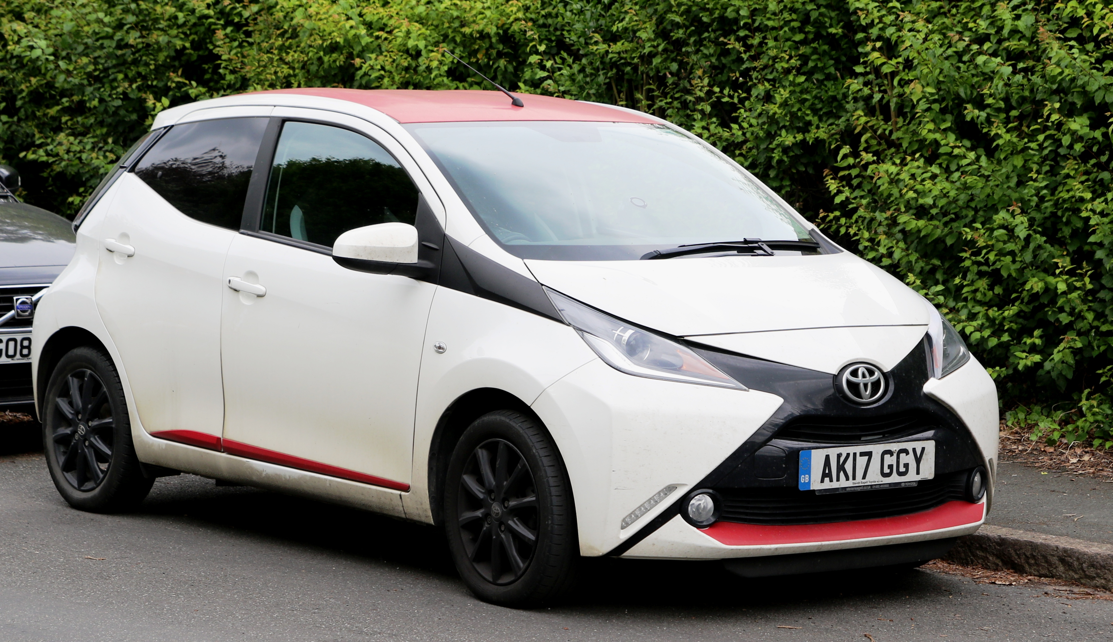 Toyota Aygo registered April 2017 998cc